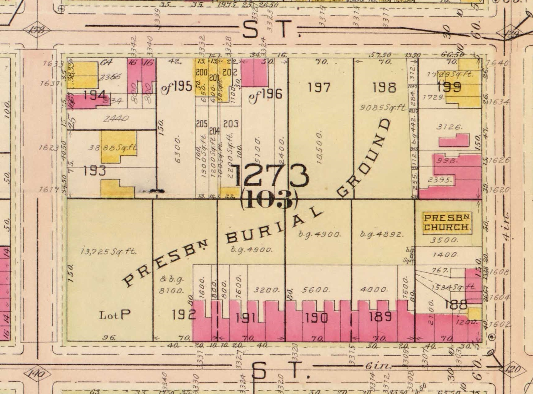 Map of Lot 1273 in the Georgetown neighborhood of Washington, D.C., in the United States in 1903, showing the location of the Presbyterian Burying Ground and its chapel (named on the namp as "Presbyterian Church").